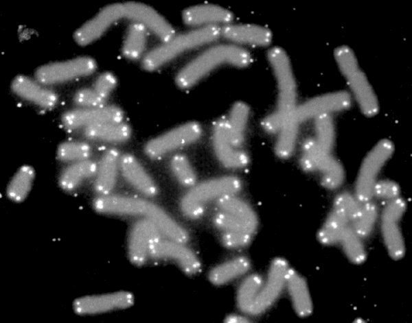 Telomere caps he:תמונה:Telomere caps.gif